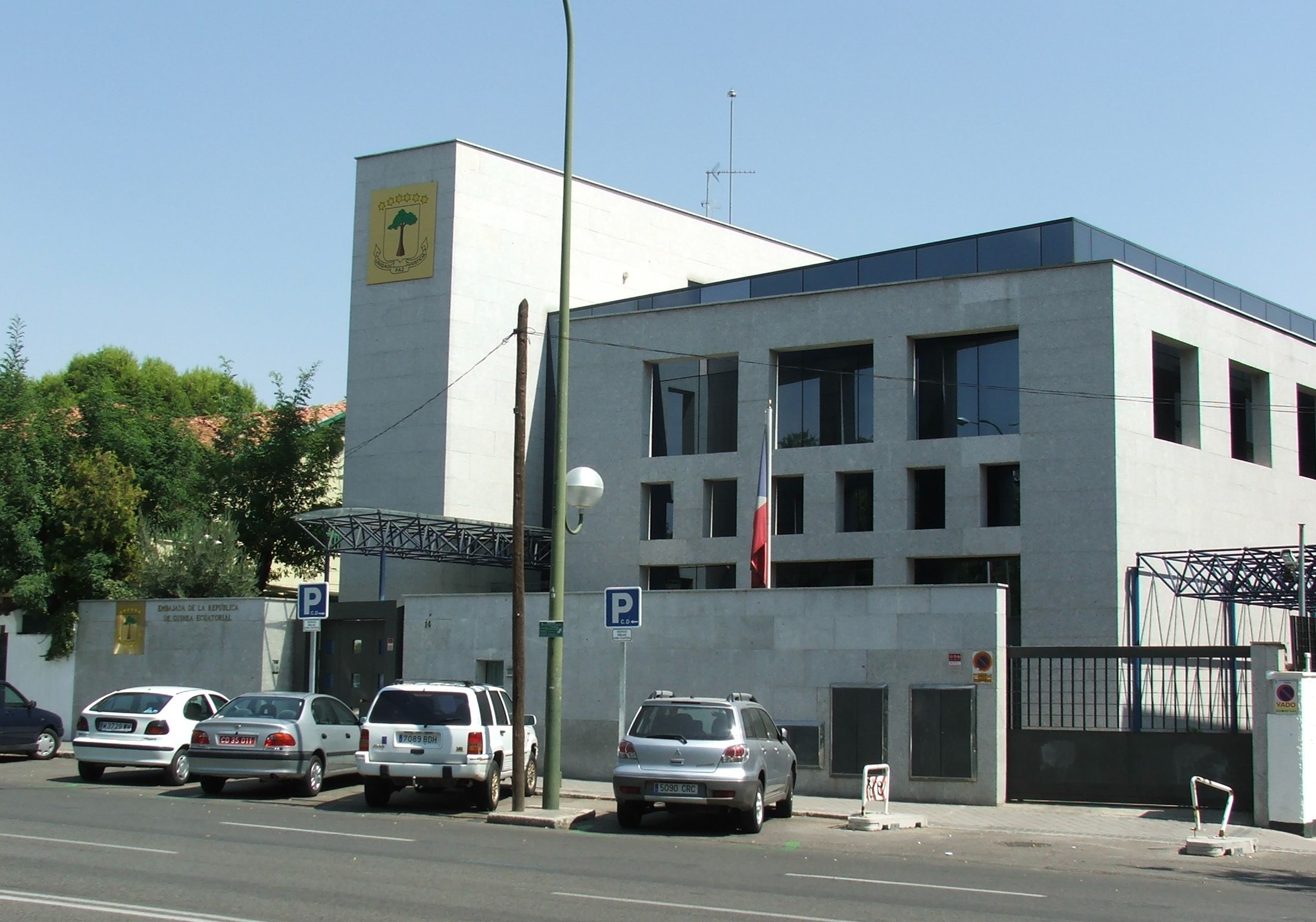 Embassy of Equatorial Guinea in Madrid - Spain - Avenida Pio XII.